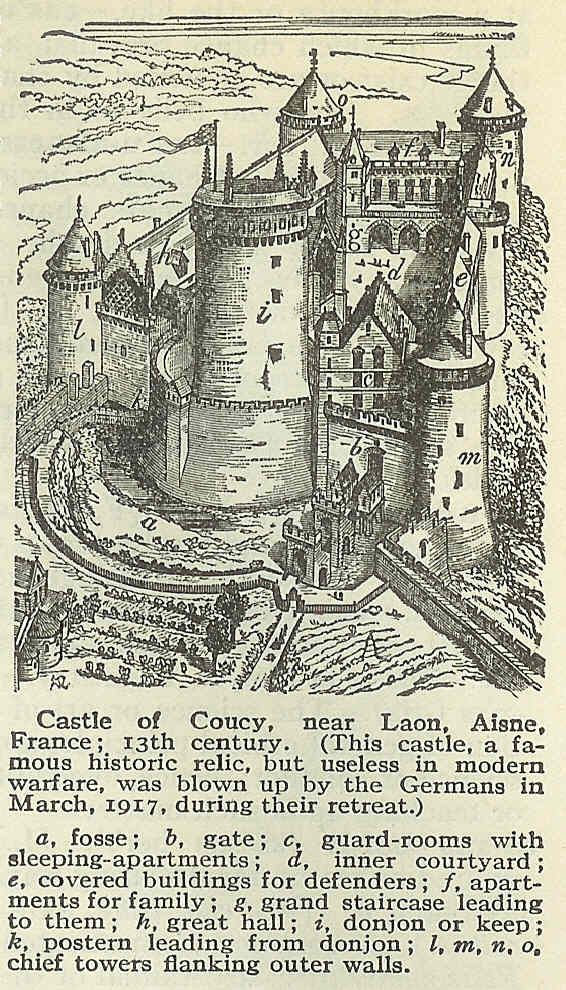 Detailed description along with plate cut of Coucy Castle in the 13th Century.